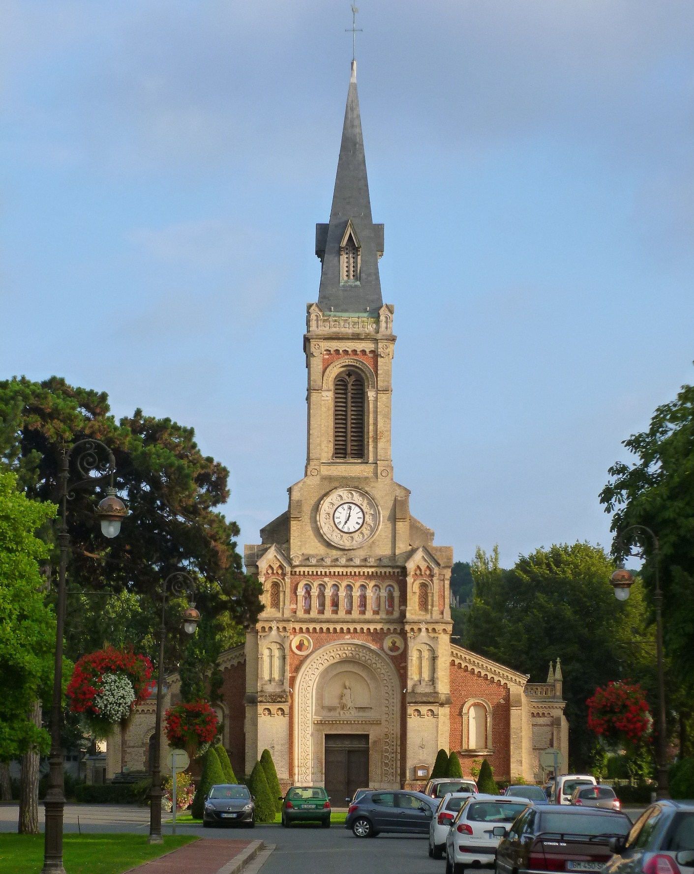 Church (Saint-Augustin) in Deauville